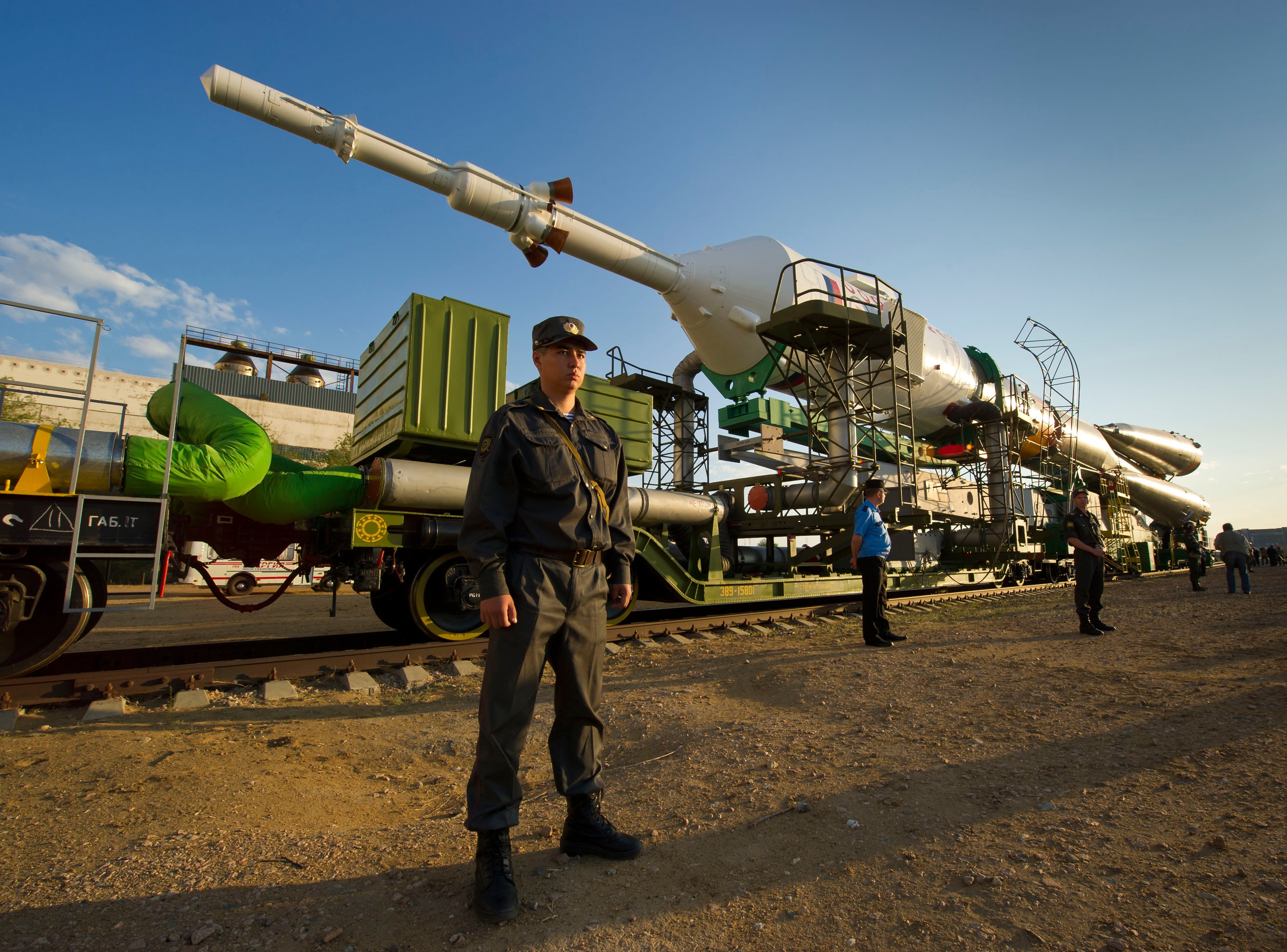 The Soyuz TMA-02M spacecraft is rolled out by train on its way to the launch pad at the Baikonur Cosmodrome, Kazakhstan, June 5, 2011. The launch of the Soyuz spacecraft with Russian cosmonaut and Soyuz commander Sergei Volkov, NASA astronaut Mike Fossum and Japan Aerospace Exploration Agency astronaut Satoshi Furukawa, both flight engineers, is scheduled for 2:15 a.m. local time on June 8, 2011.